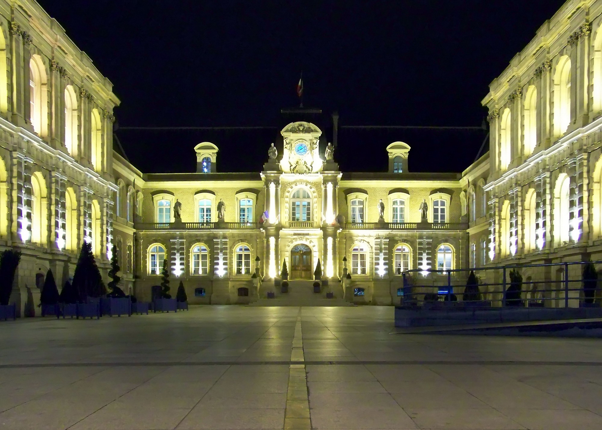 Amiens city hall by night, Amiens, France